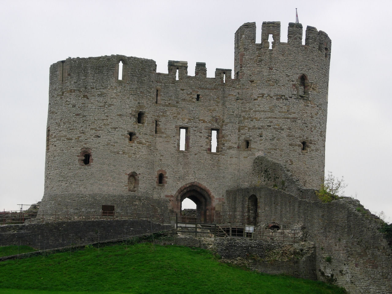 Dudley Castle remains, in the West Midlands, England.